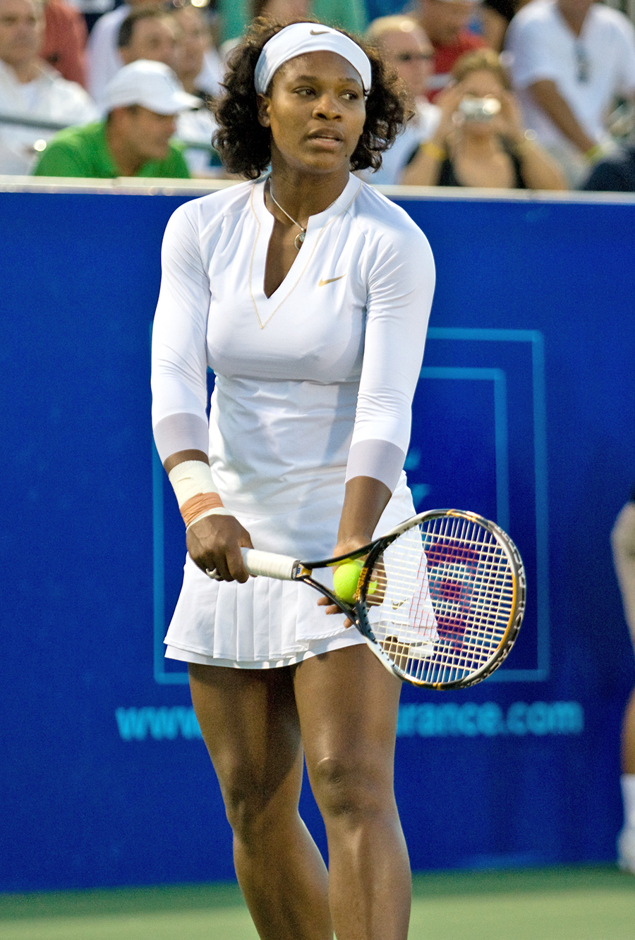 Serena Williams playing for the Washington Kastles against the New York Sportimes during a World Team Tennis match in Mamaroneck, NY on July 10, 2008.